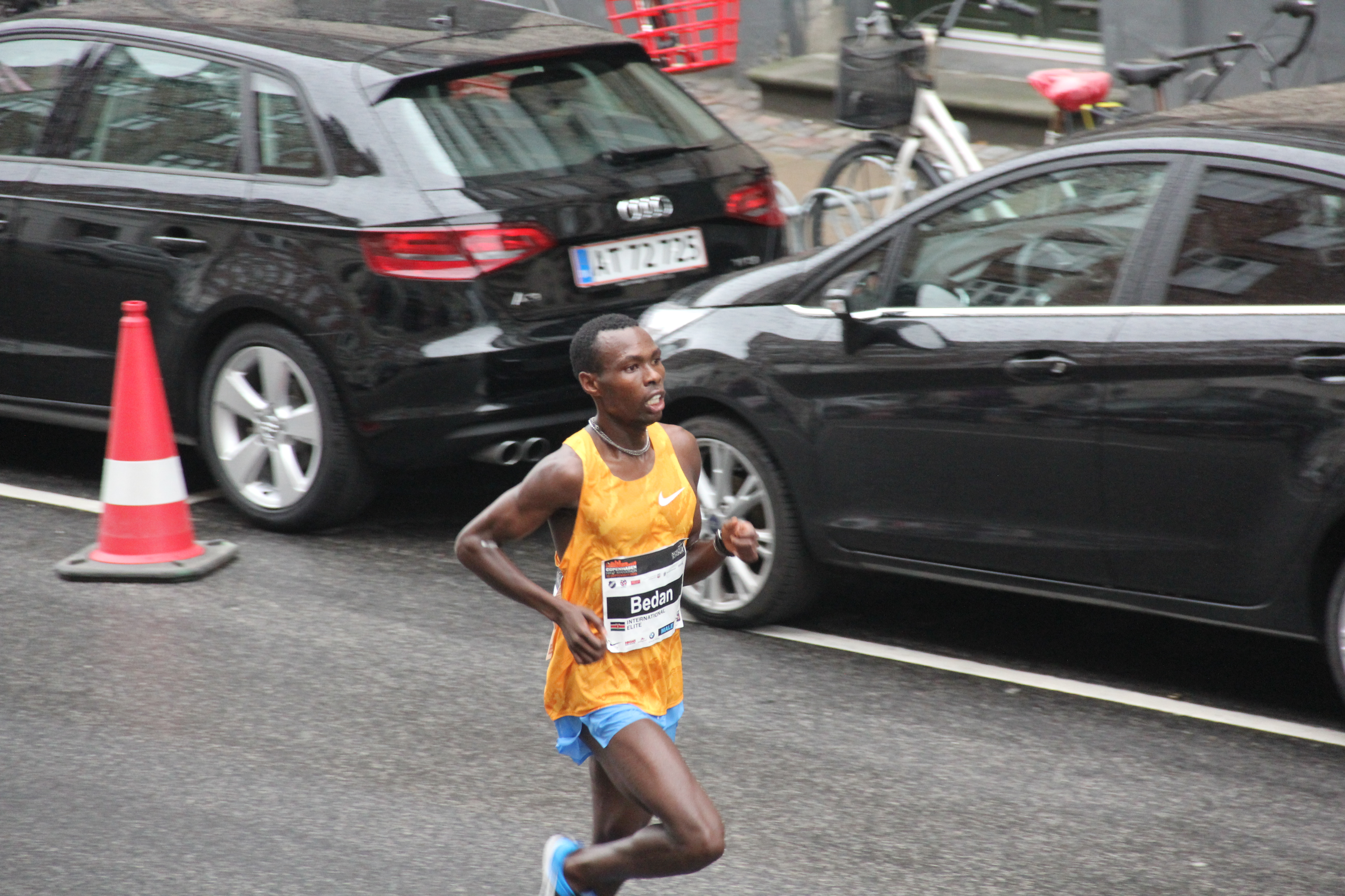 Half marathon Sep 13 2015 at 19.5 km Bedan Karoki Muchiri